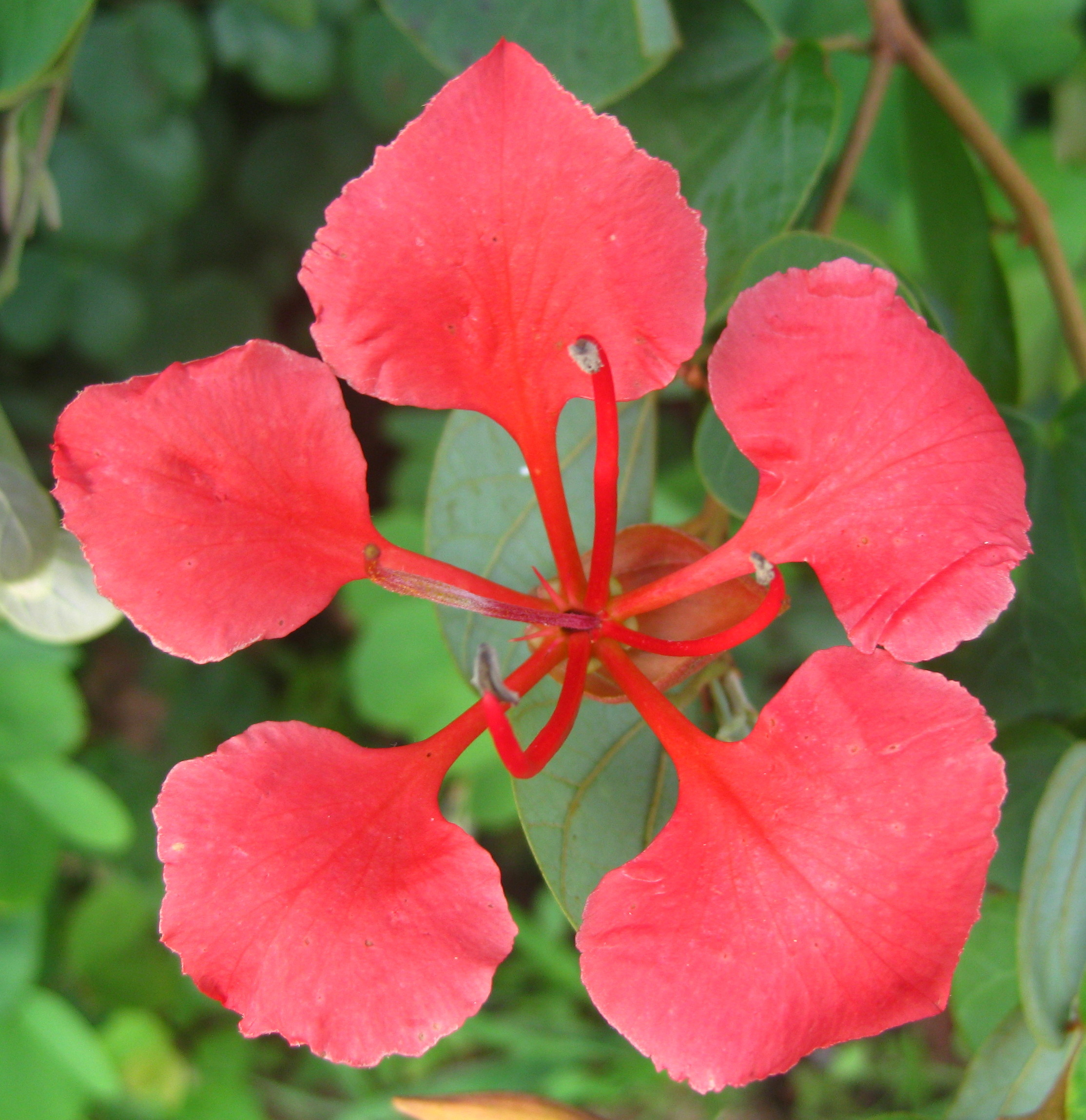 Flower of Bauhinia galpinii, growing in the wild close to Chimoio, Mozambique.